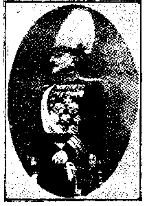 Lieutenant general José Olaguer Feliú in uniform.